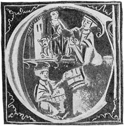 Charles IV of Anjou presenting an Arabic manuscript to Faraj ben Salim for translation. (From an illumination by Friar Giovanni in the Bibliothèque Nationale, Paris.)